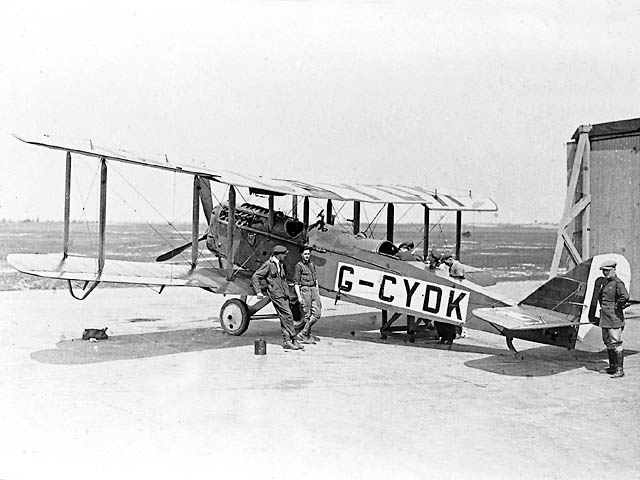 de Havilland DH4